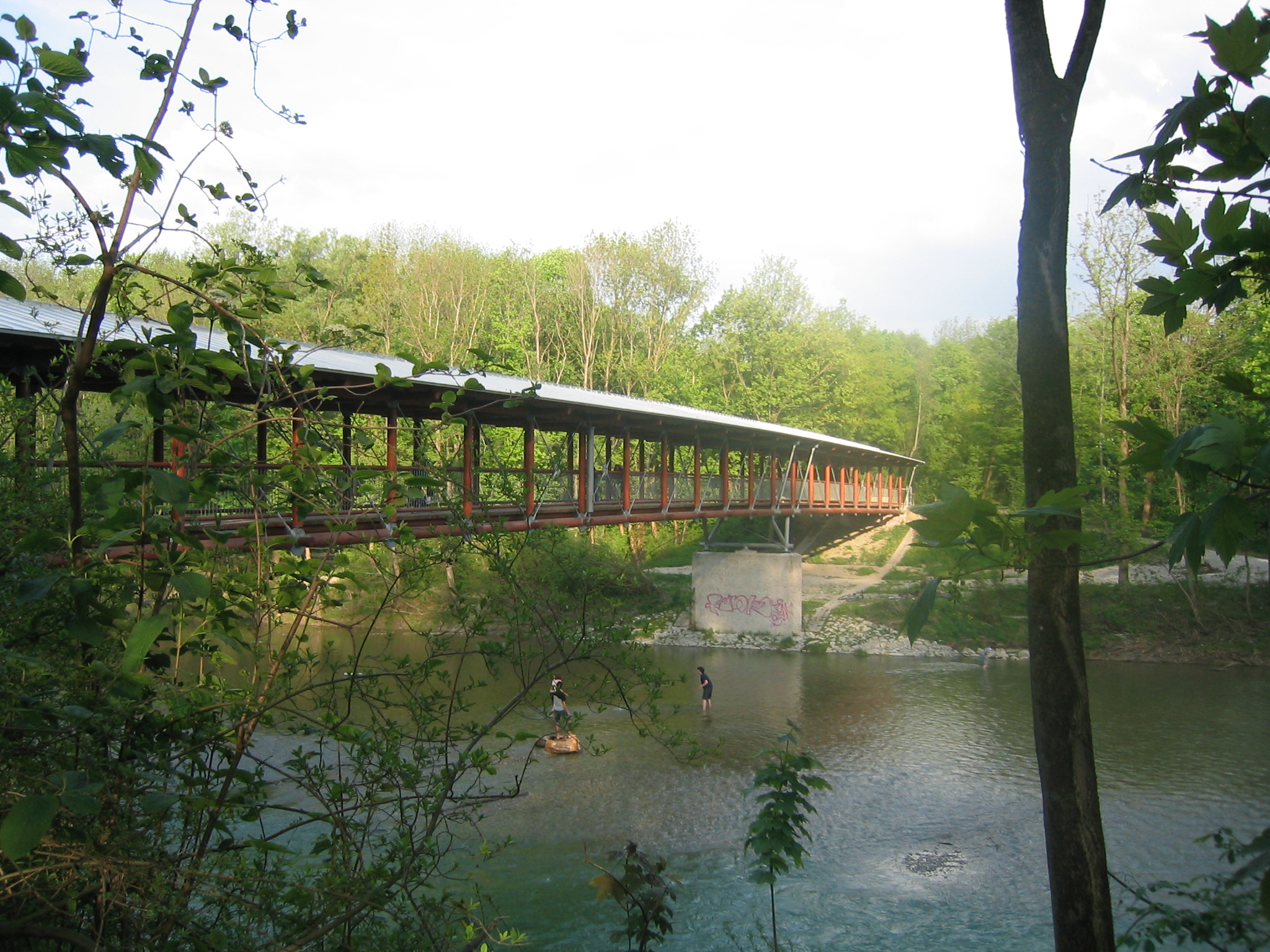 The St. Emmeram bridge in the norther section of the "Englischer Garten" park in Munich. The wooden bridge spanning the Isar river burned down in 2002 and has been rebuilt later.